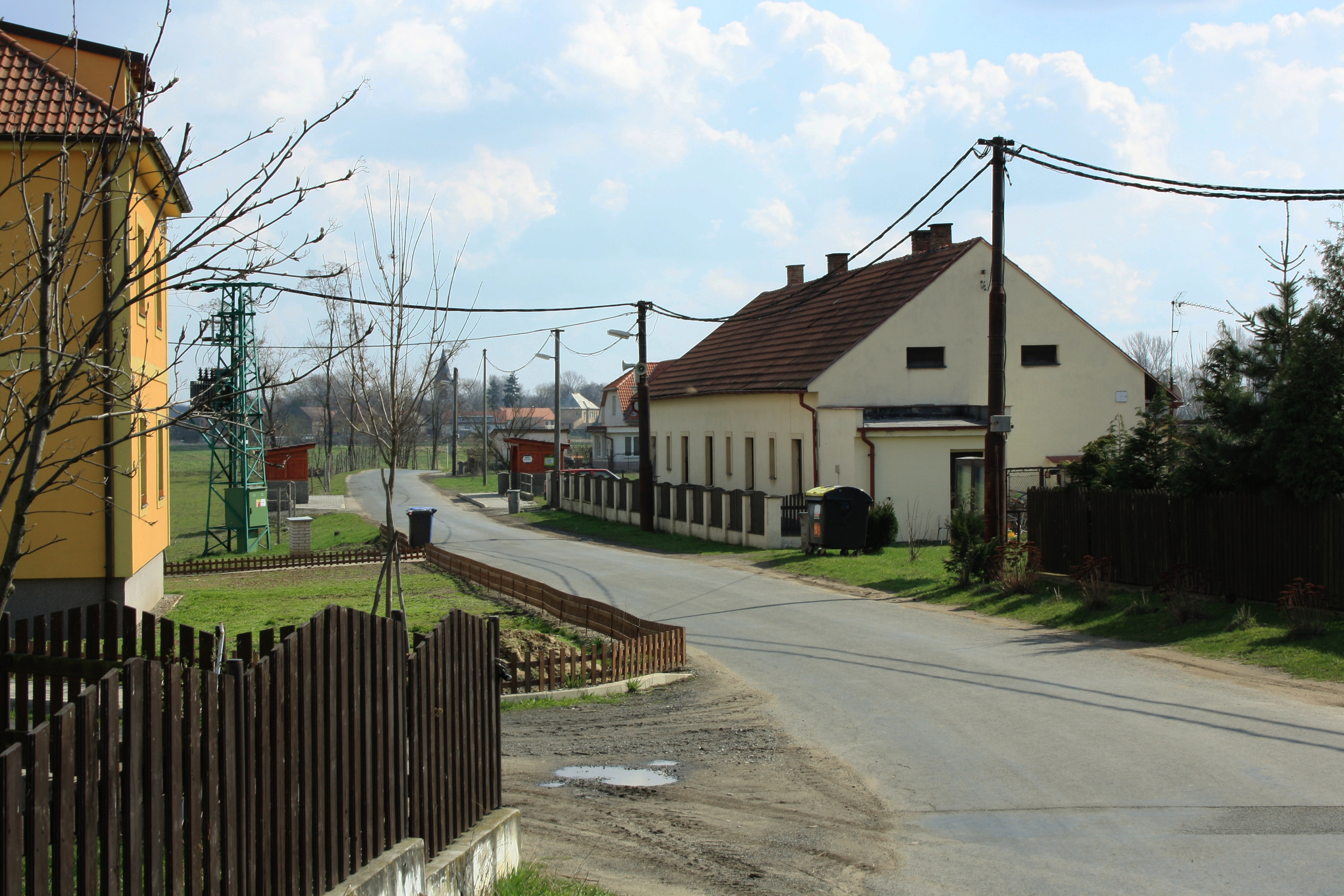 Housing in Zelčín, town of Hořín, Mělník District. Central Bohemian Region, CZ